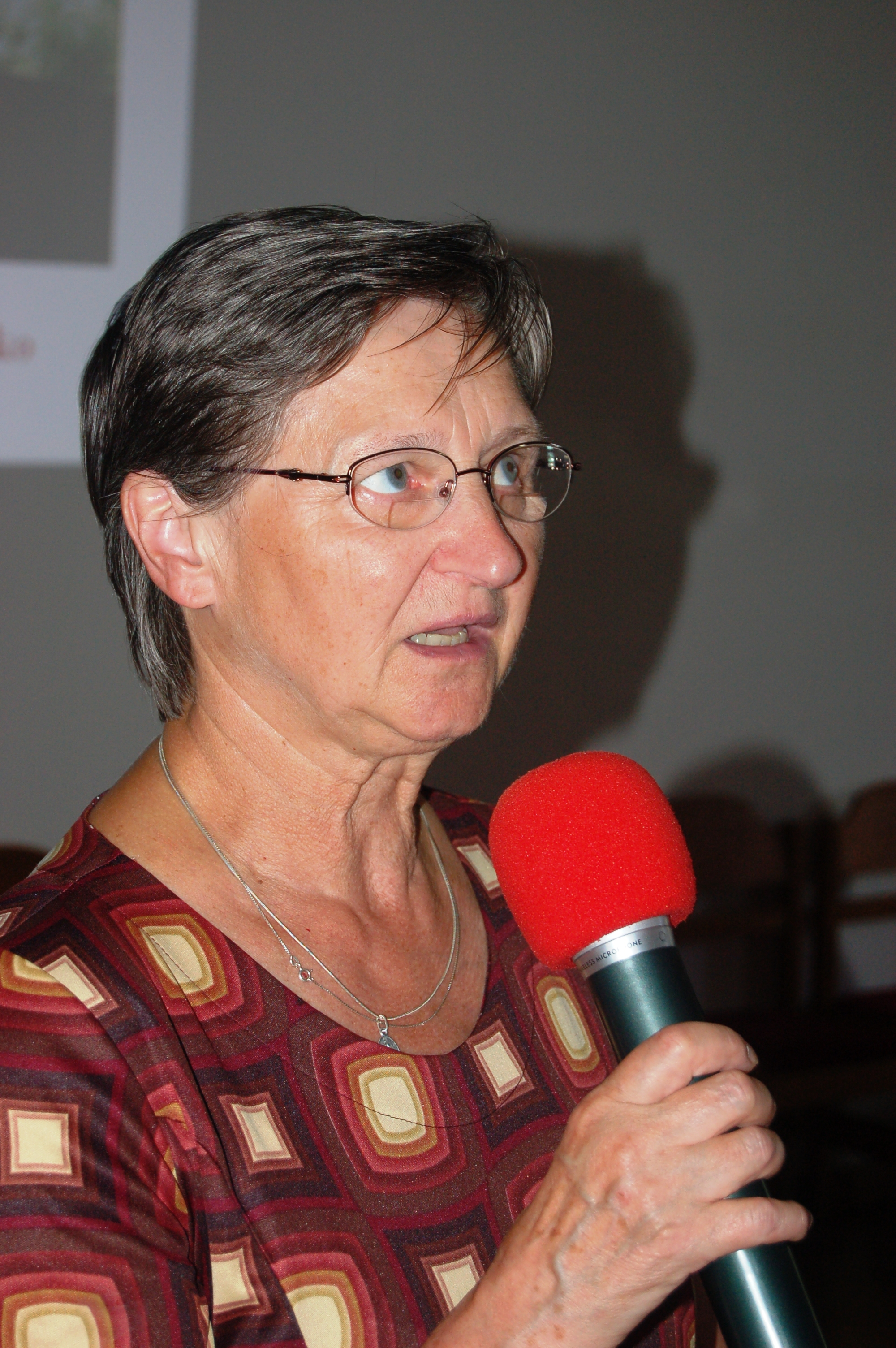 MUDr. Marie Svatošová